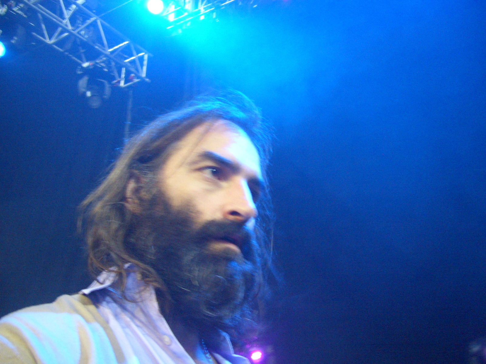 Warren Ellis, musician (2006)